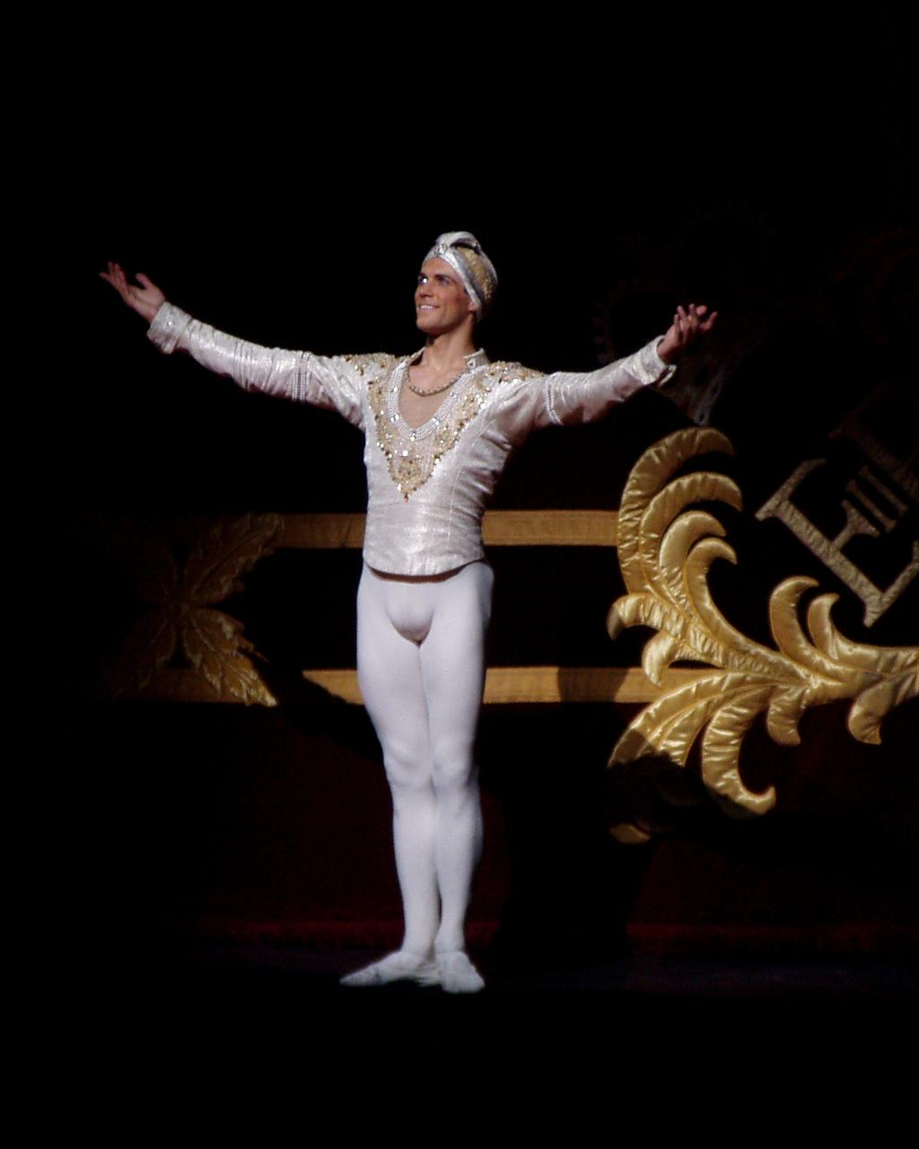 Roberto Bolle as Solor in the Royal Ballet production of La Bayadere